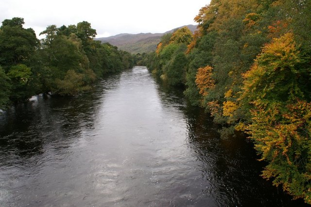 River Farrar at Struy Taken from the Struy Bridge, just before the Farrar joins the Glass to become the Beauly.